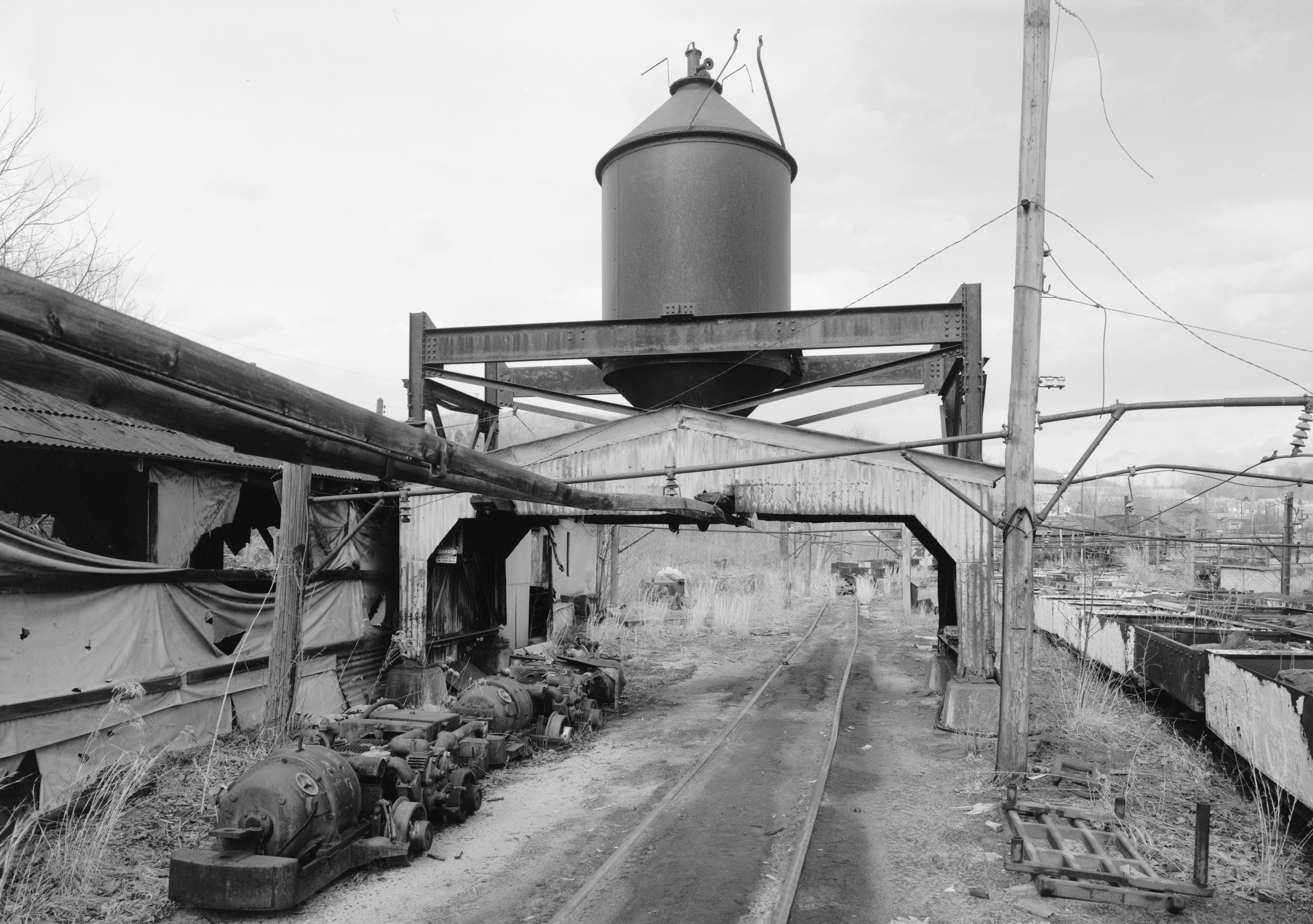 Railroad sand tank at Eureka No. 40, located in Scalp Level, Pennsylvania, United States. Built in 1928, the sand tank is part of a historic district that is listed on the National Register of Historic Places, the Berwind-White Mine 40 Historic District.